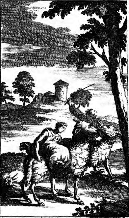 Sheeps and paisants.